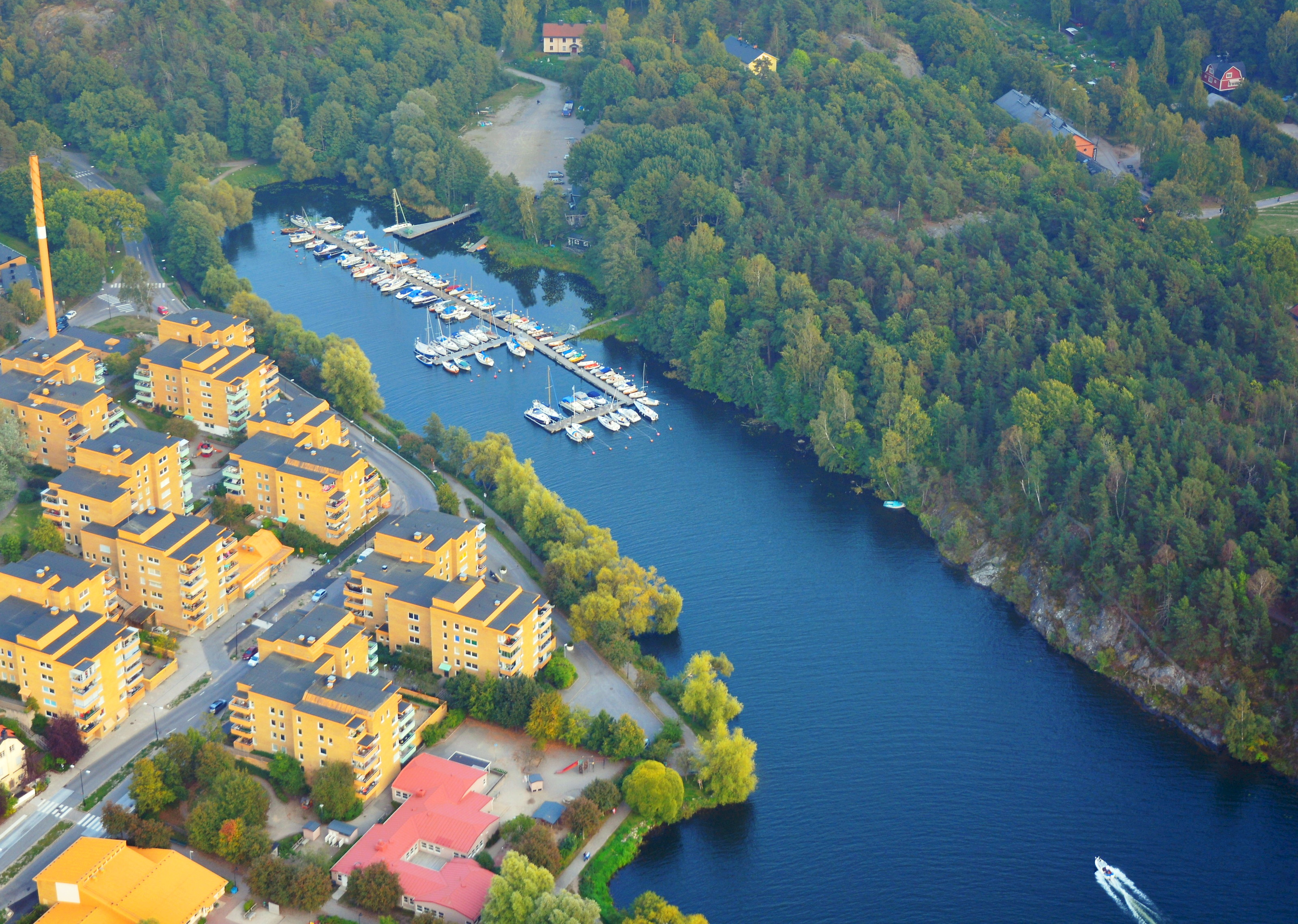 Mörtviken in Gröndal in southern Stockholm, Sweden.